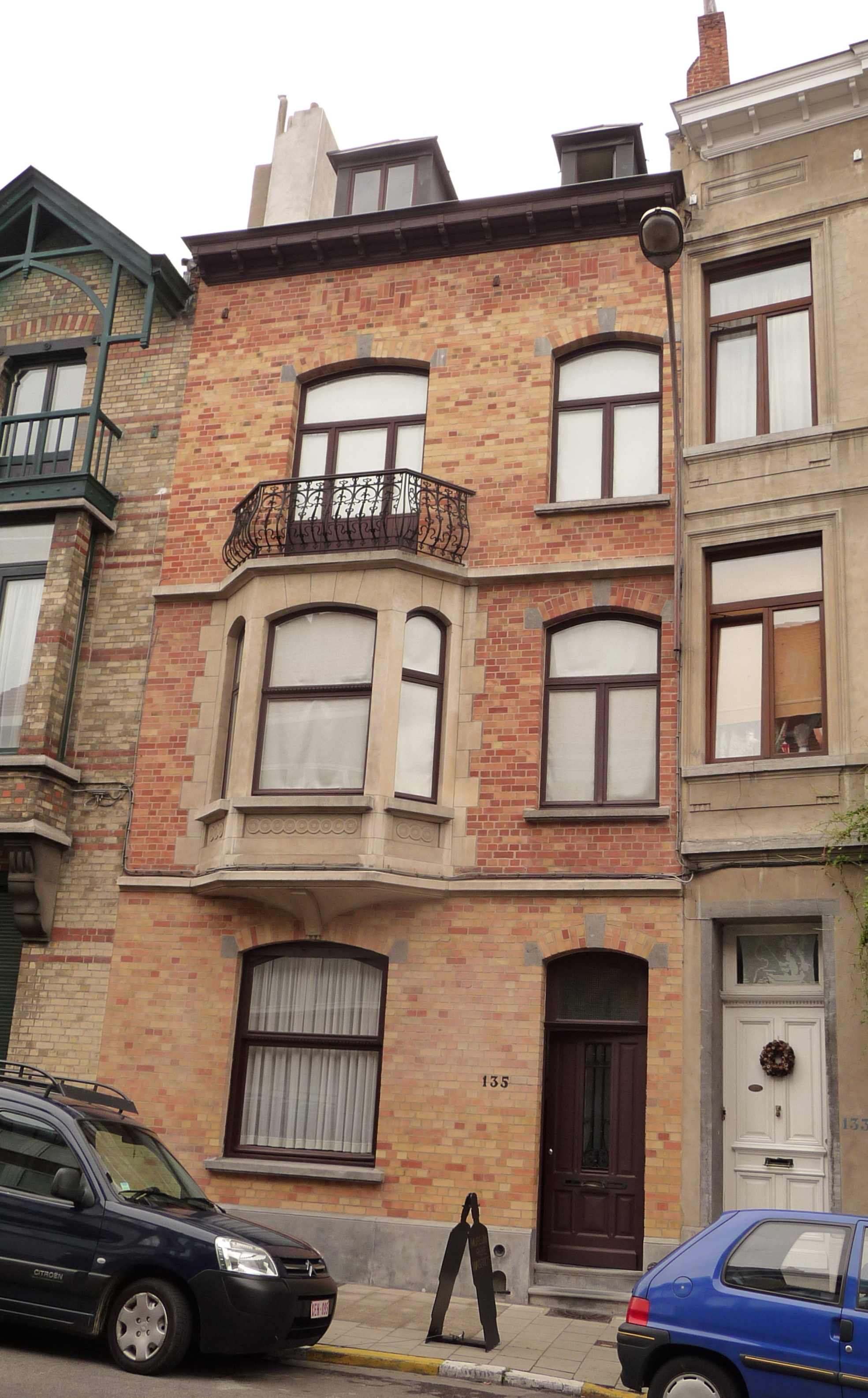 Musée Rene Magritte in Brussels